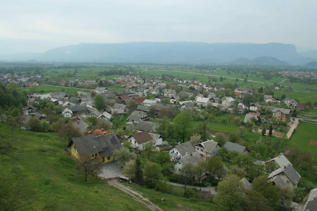 Village of Žirovnica in Žirovnica municipality, Slovenia; Jelovica karst plateau in the background